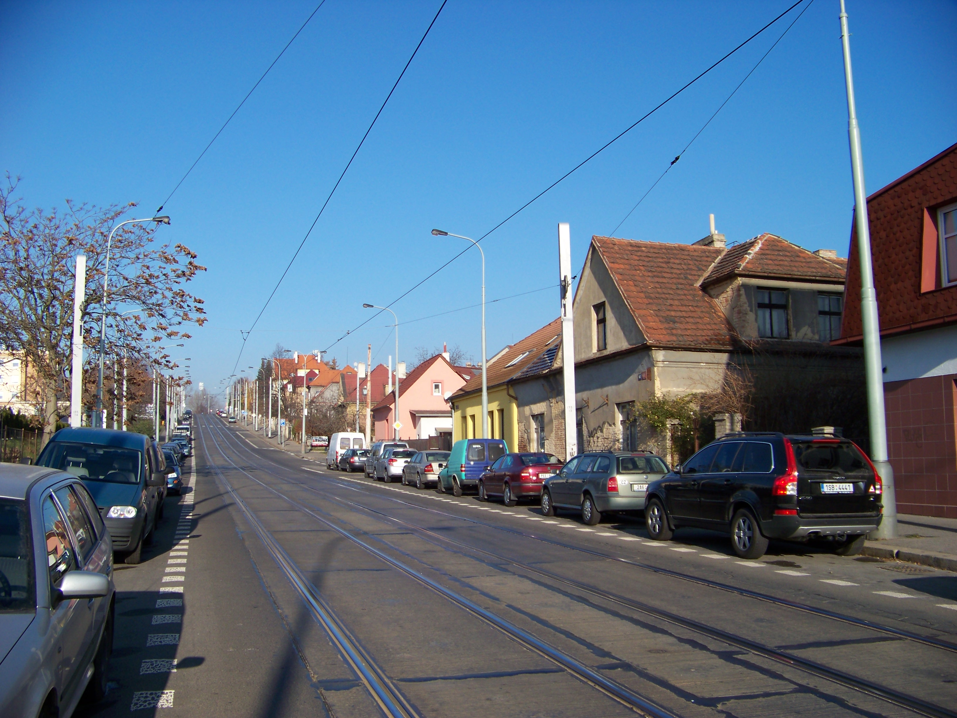 Prague-Kobylisy, the Czech Republic. Klapkova street. - OpenStreetMap(Info)